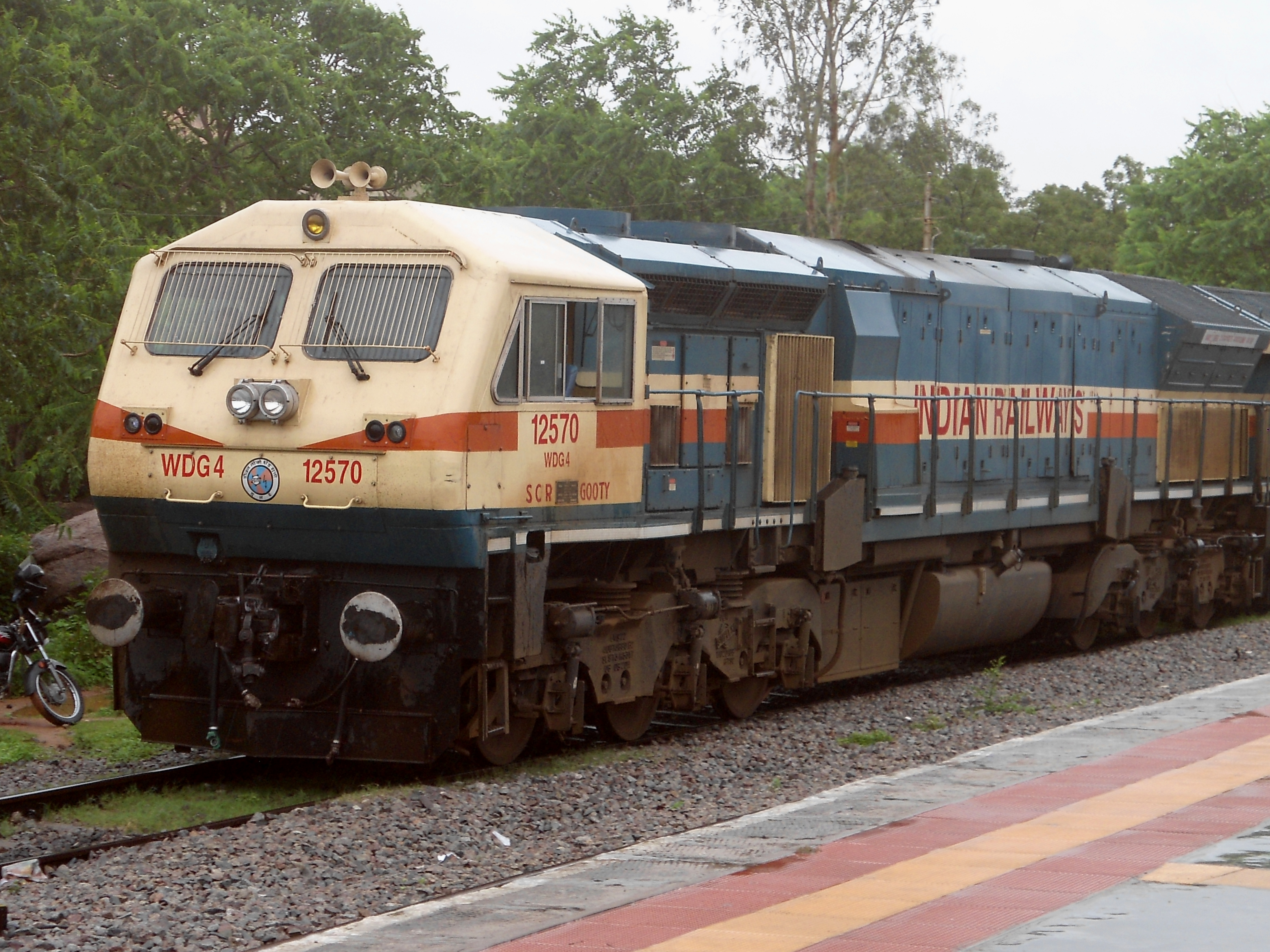 GTY based WDG-4 locos with Freight Tanker at Malkajgiri railway station, Secunderabad